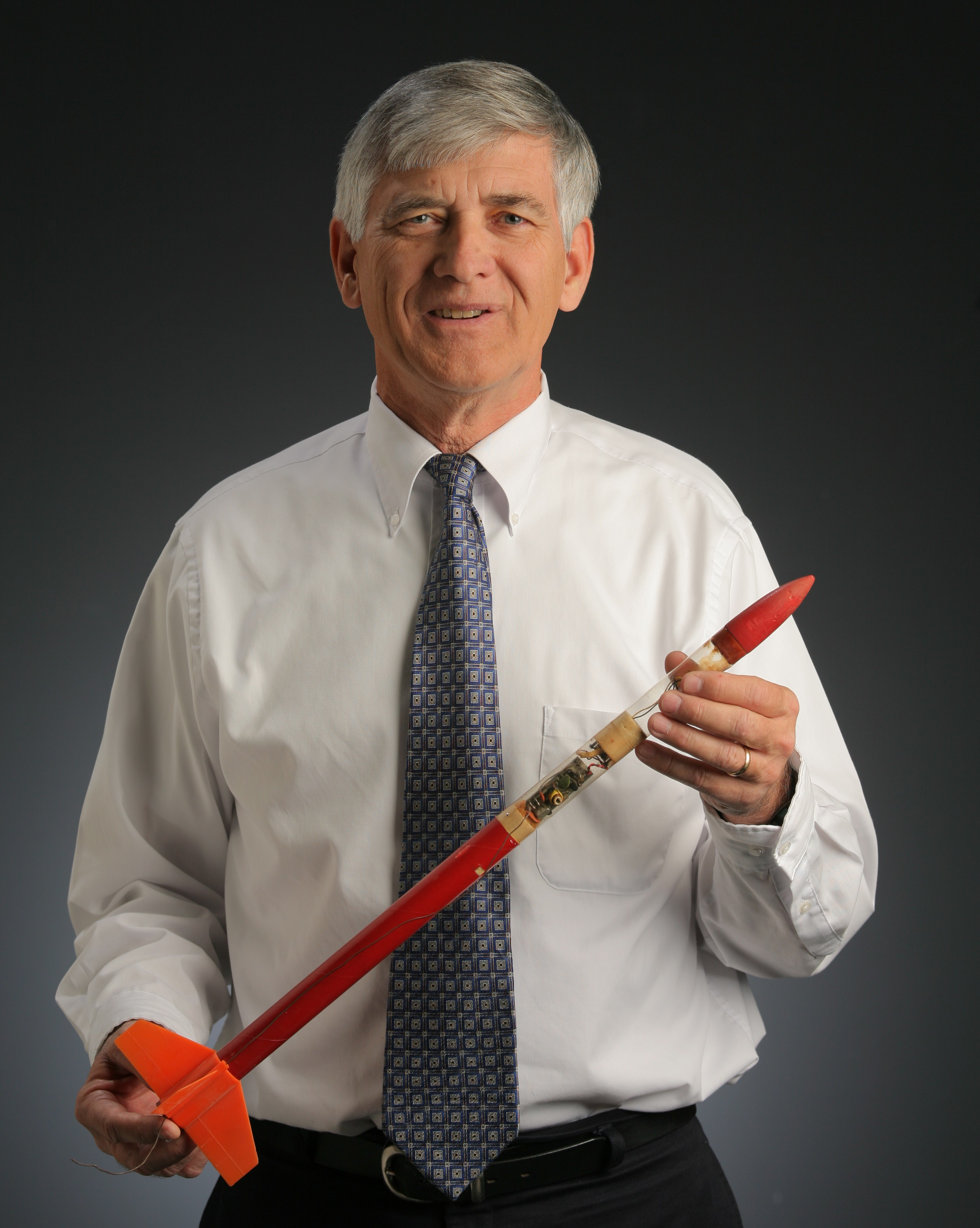 This photograph of a 1970 model rocket equipped with the first MITS TX-1 telemetry transmitter was made shortly before the rocket was placed on display at the StartUp Exhibit at the New Mexico Museum of Natural History and Science in 2006. In 1975 MITS announced the Altair 8800 microcomputer.